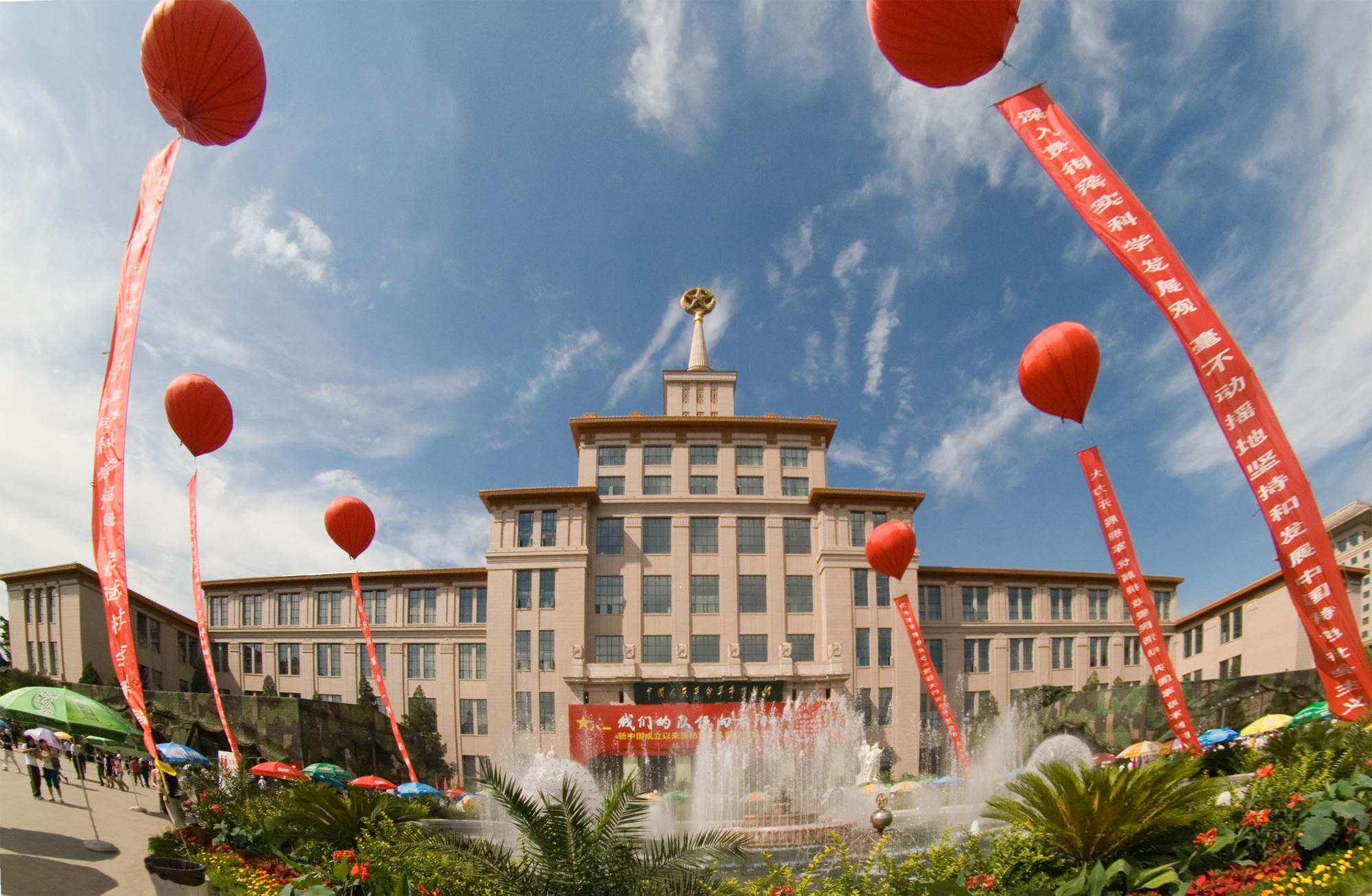 The front of the Beijing Military Museum during the "Our troops run towards the sun" exhibition.